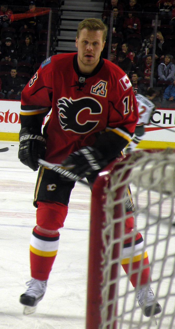 Calgary Flames forward Olli Jokinen during warmup prior to a National Hockey League game against the Minnesota Wild.